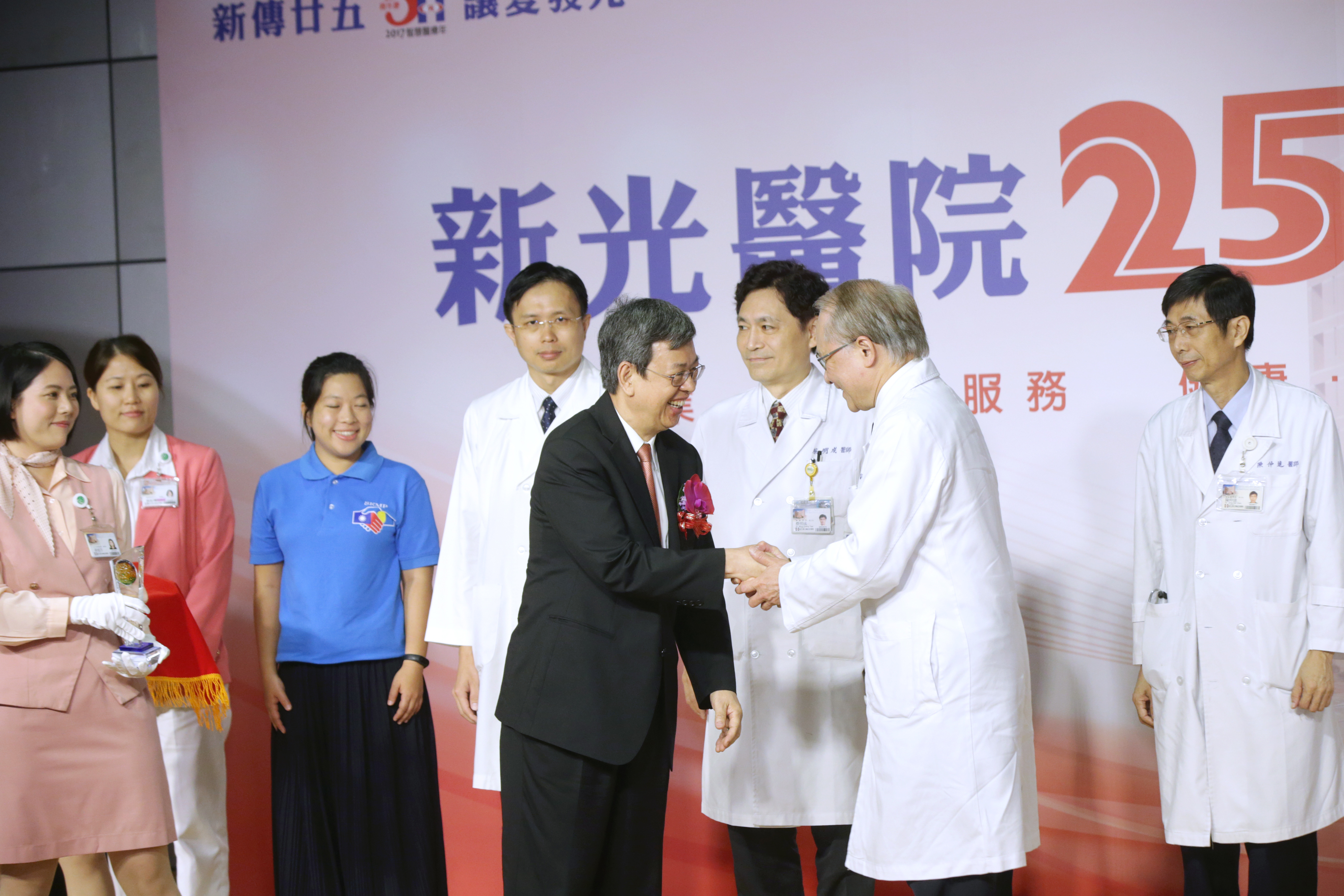 授權方式及範圍：中華民國總統府│政府網站資料開放宣告 Authorization Method & Scope: Office of the President, Republic of China (Taiwan) | Government Website Open Information Announcement